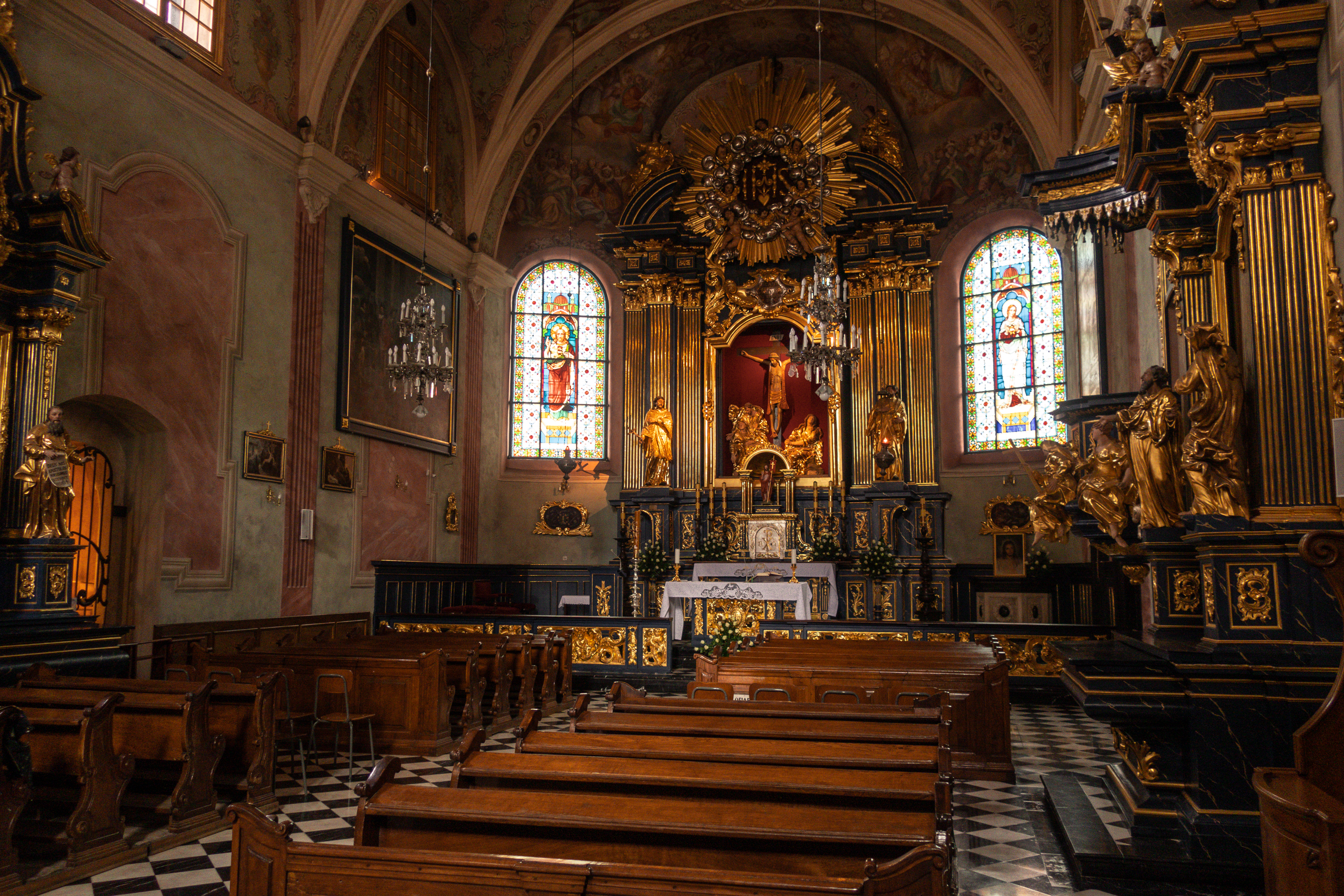 Interior of the Church of St. Barbara in Kraków